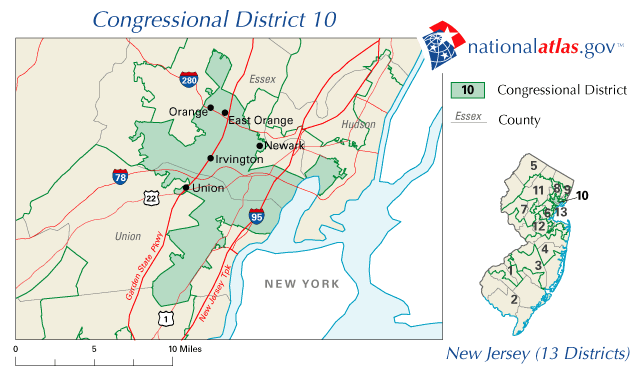 NJ's 10th US Congressional District. from Category:Congressional districts of New Jersey Category:New Jersey maps